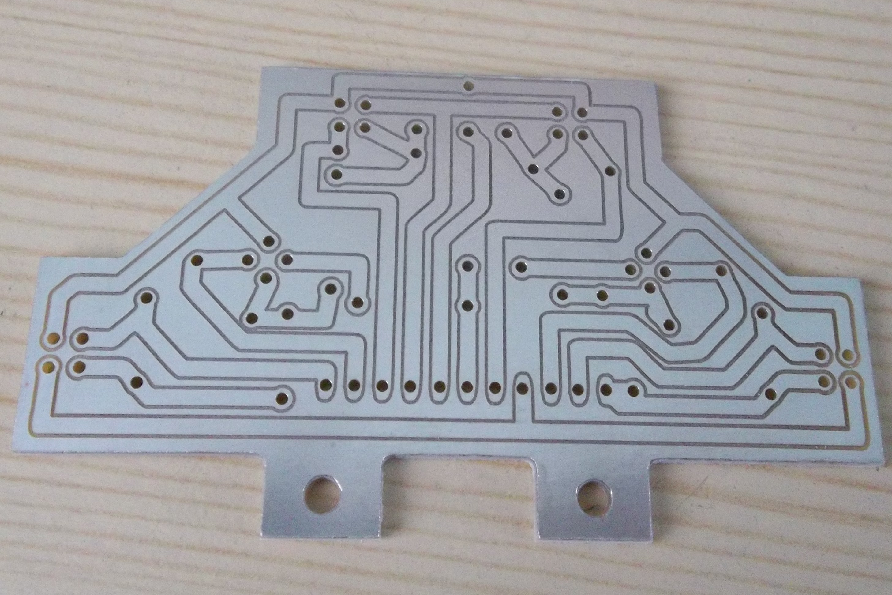 PCB milled from a copper clad board, then tin coated